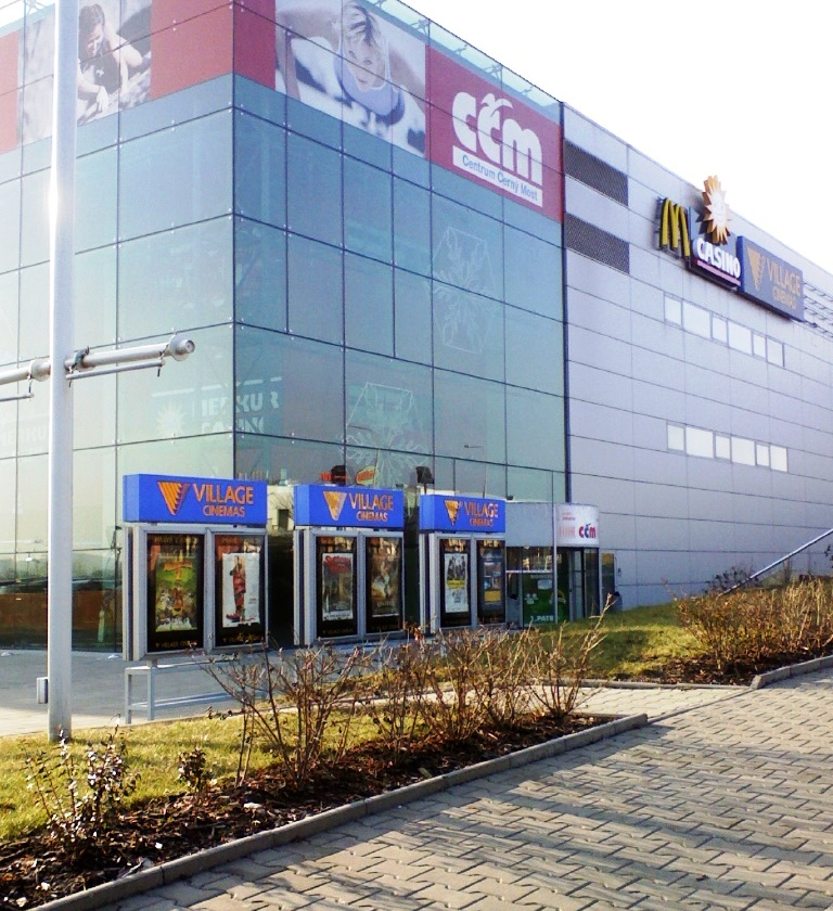 Village Cinemas in Prague - Cerny Most, The Czech Republic